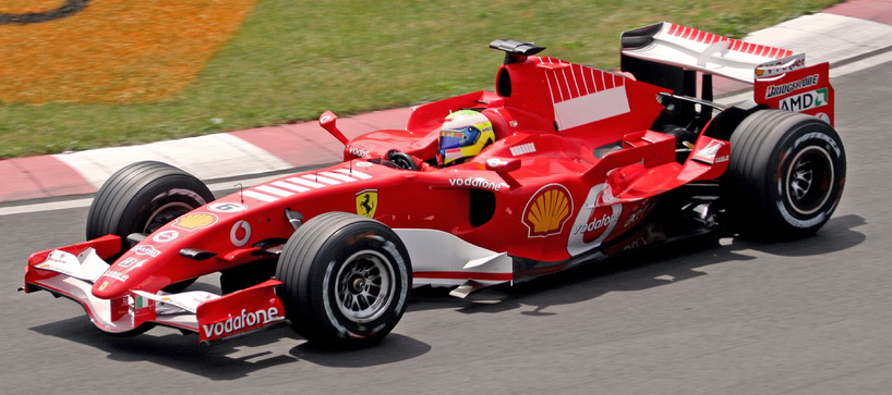 Felipe Massa driving for Ferrari at the 2006 Canadian Grand Prix.